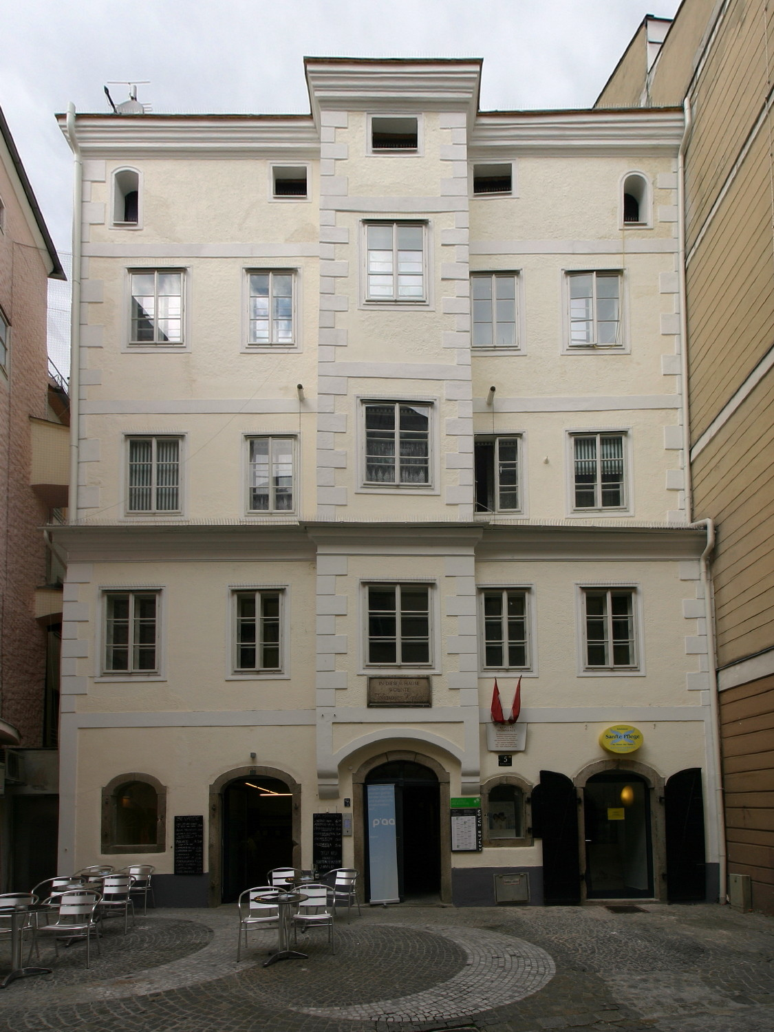 The house in Linz, Austria, where Johannes Kepler lived from 1622 to 1626. This image was stitched from two overlapping images made with a 11mm wide angle lens, and the perspective was corrected with the software PTgui.